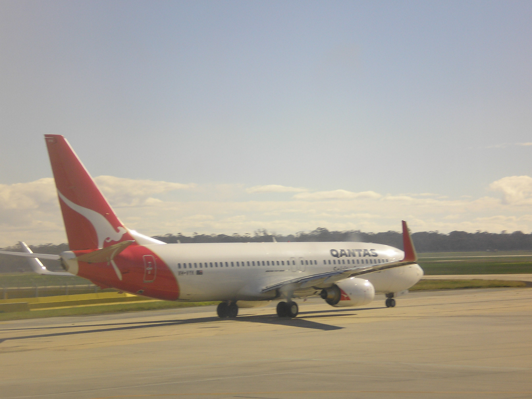 QANTAS Boeing 737-800 (VH-VYK) is seen going towards the runway on a domestic departure from Terminal 1. Photo taken by me, JU580 on 10 July 2007